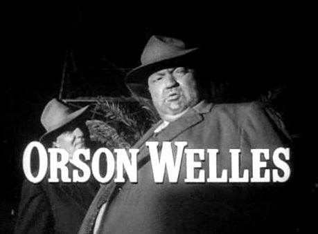 Screenshot of Orson Welles from the trailer for the film Touch of Evil